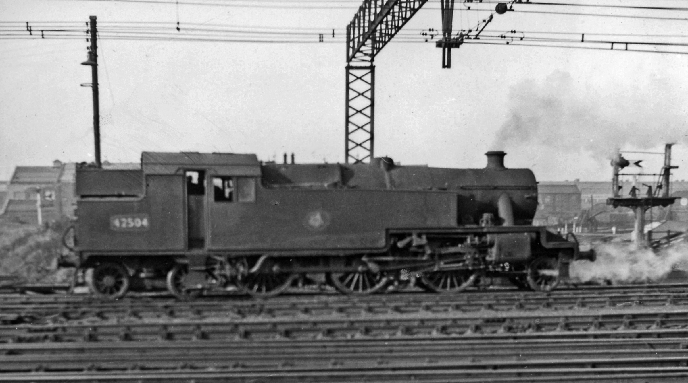 Stanier 3-cylinder 2-6-4T at Stratford. View NW from the London end of the main station: ex-GE main line junction. Liverpool Street (also Fenchurch Street) and the North London Line etc. via Channelsea Junction are to the left, all country and suburban lines to the right. At this point the Low Level line from North London and Temple Mills Yard etc. to the Royal Docks and North Woolwich pass underneath; the signals on the right are beside Fork Junction Box. The 37 Stanier 3-cylinder 2-6-4Ts were designed and built in 1934 specifically for the Tilbury Line: all worked the line until it was electrified in 1962, No. 42504 being withdrawn in 7/62. They were not often seen at Stratford, probably only for attention at the Works.